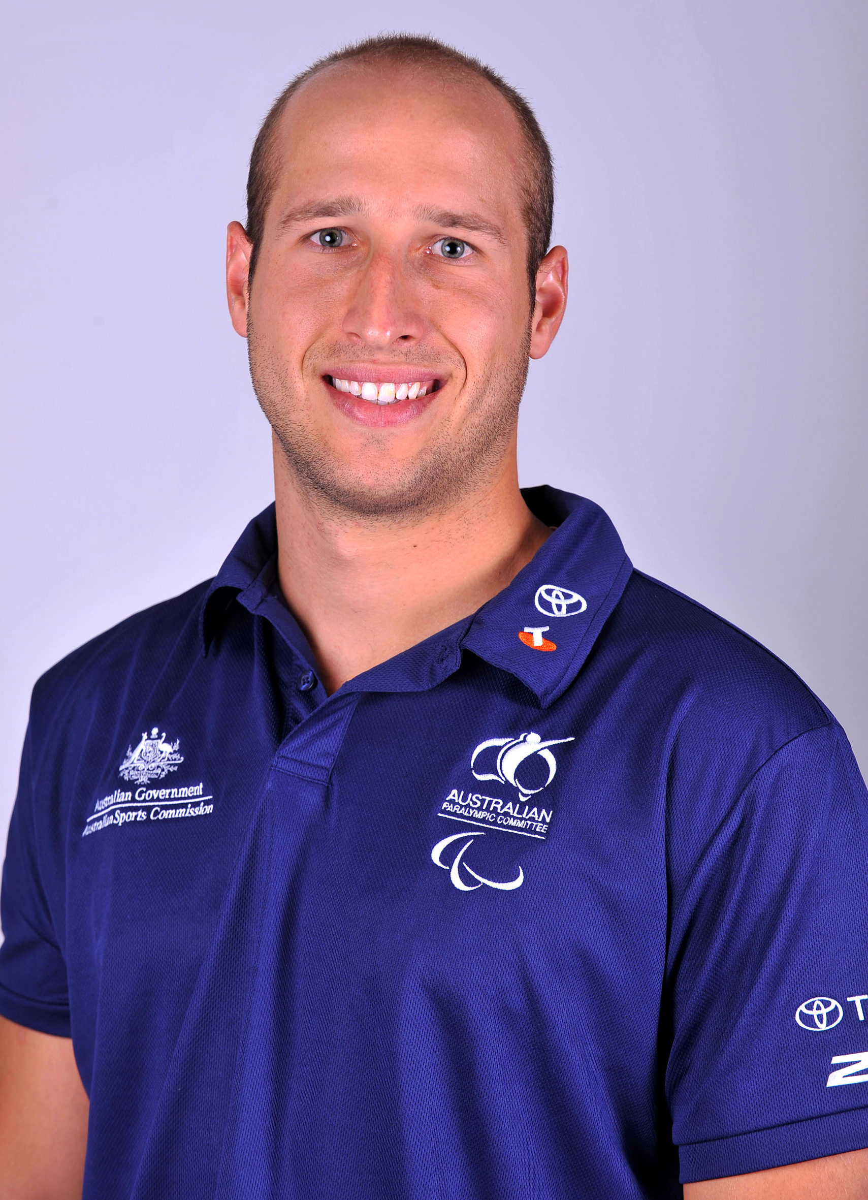 Portrait of Australian swimmer Timothy Antalfy, 2012 Australian Paralympic (shadow) Team athlete